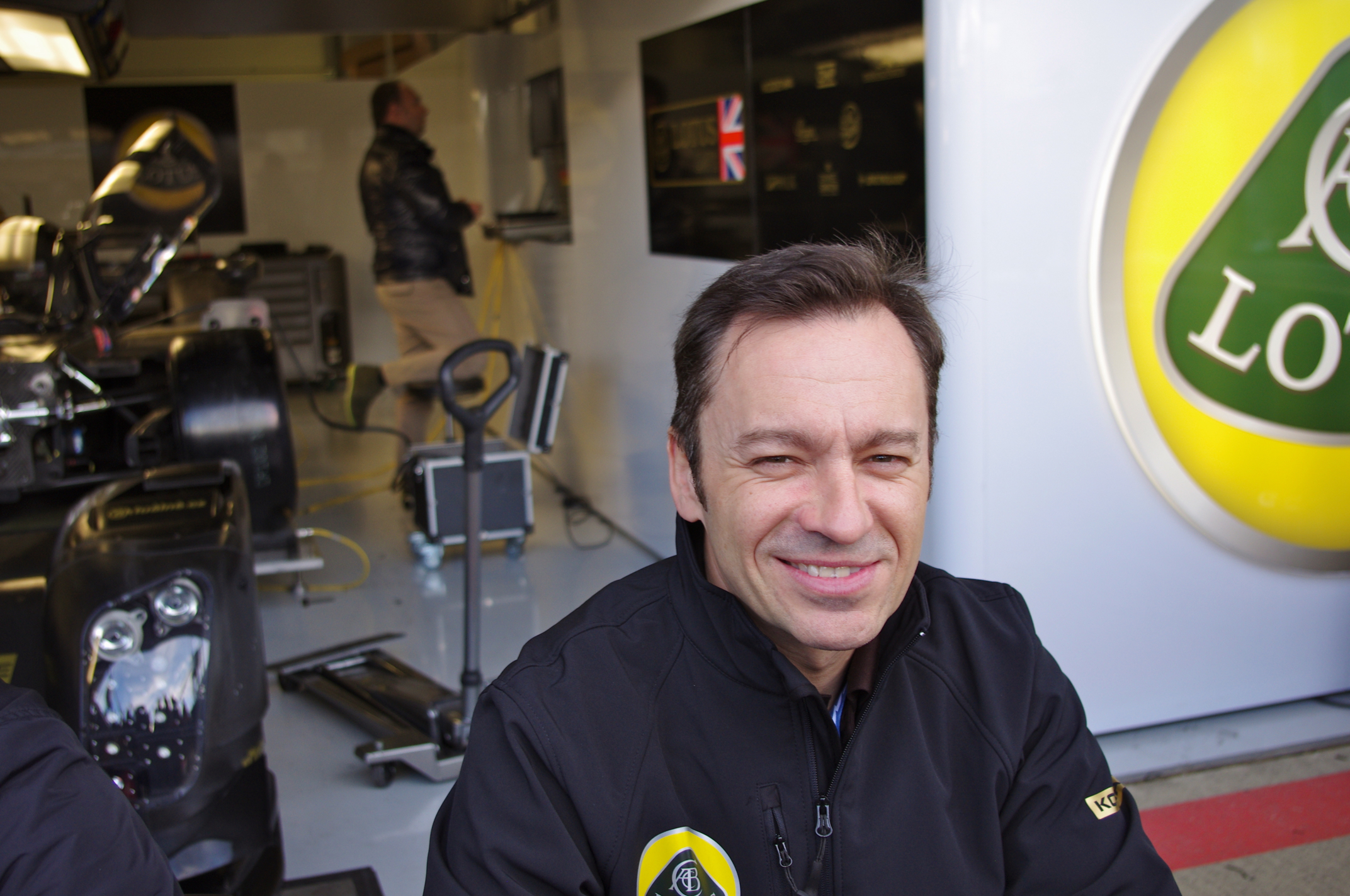 Silverstone 6 Hours 2013 FIA World Endurance Championship (WEC)